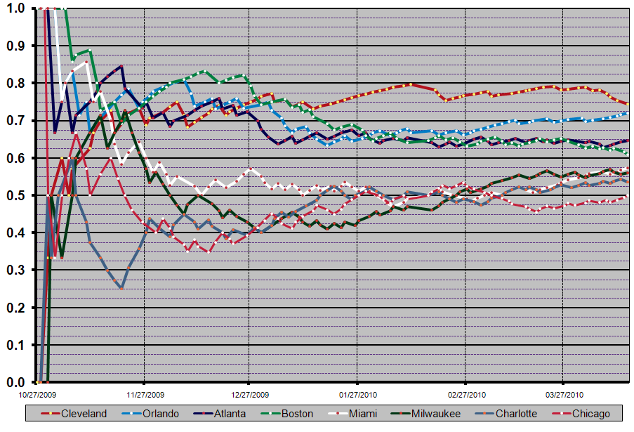 Team standings progression on the NBA Eastern Conference teams that qualified to the playoffs. Data from 's game logs.